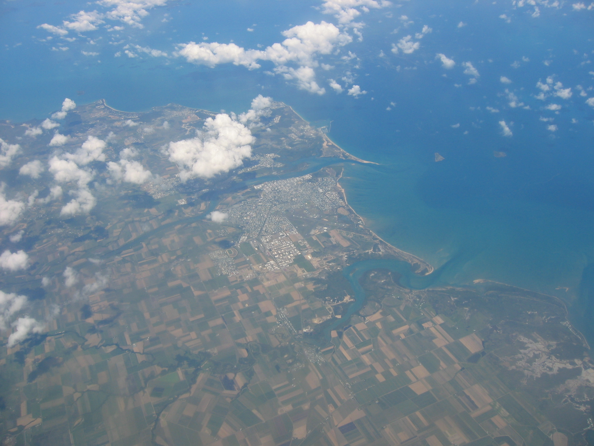 Picture of Mackay, Queensland from the air. The picture also shows the surrounding area with sugar cane fields. Baker's creek is visible towards the bottom of the image.